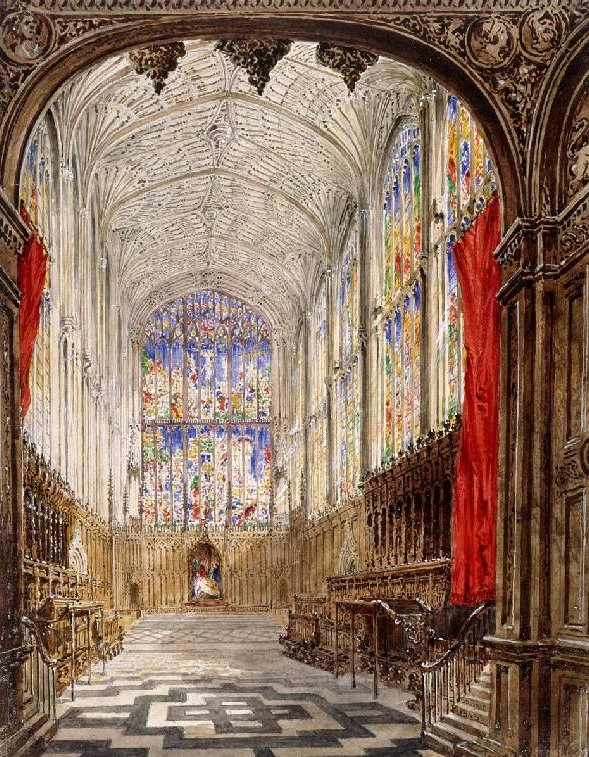 King's College Chapel, Cambridge